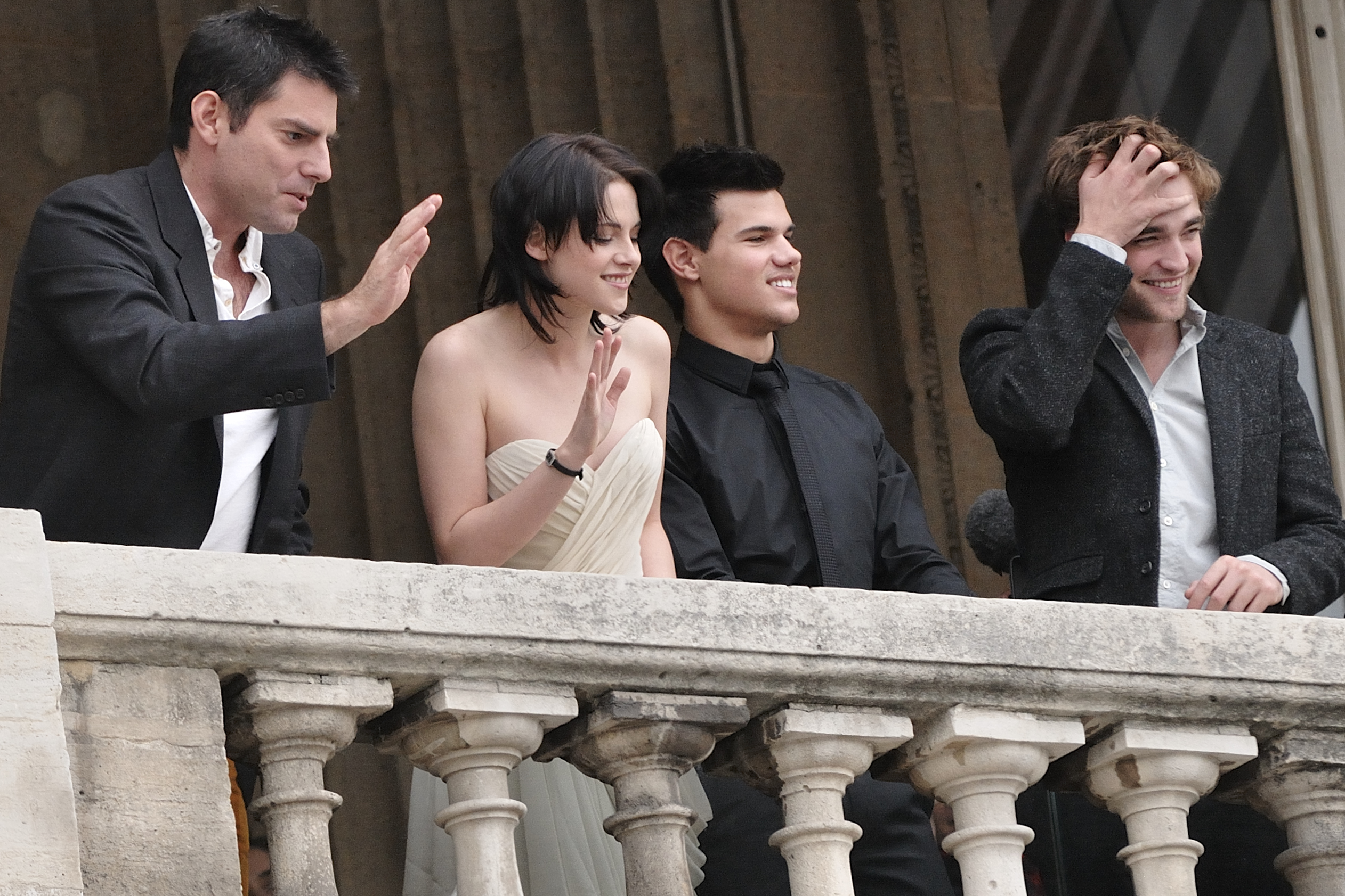 Director Chris Weitz (left), actress Kristen Stewart, actor Taylor Lautner and actor Robert Pattinson (right) attending the Twilight Saga Film New Moon (Twilight Chapitre 2 Tentation) Photocall at the Crillon Hotel in Paris, France on November 10, 2009.